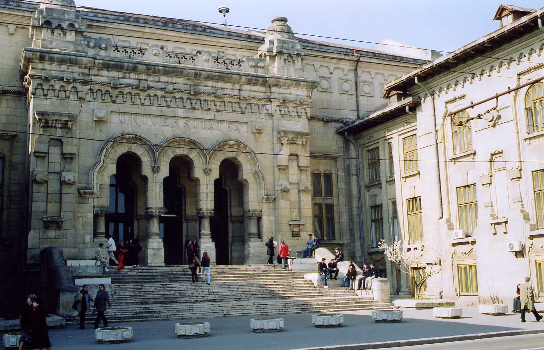 The University Dunărea de Jos - Lower Danube - was founded in 1974 by a merger of two smaller bodies.